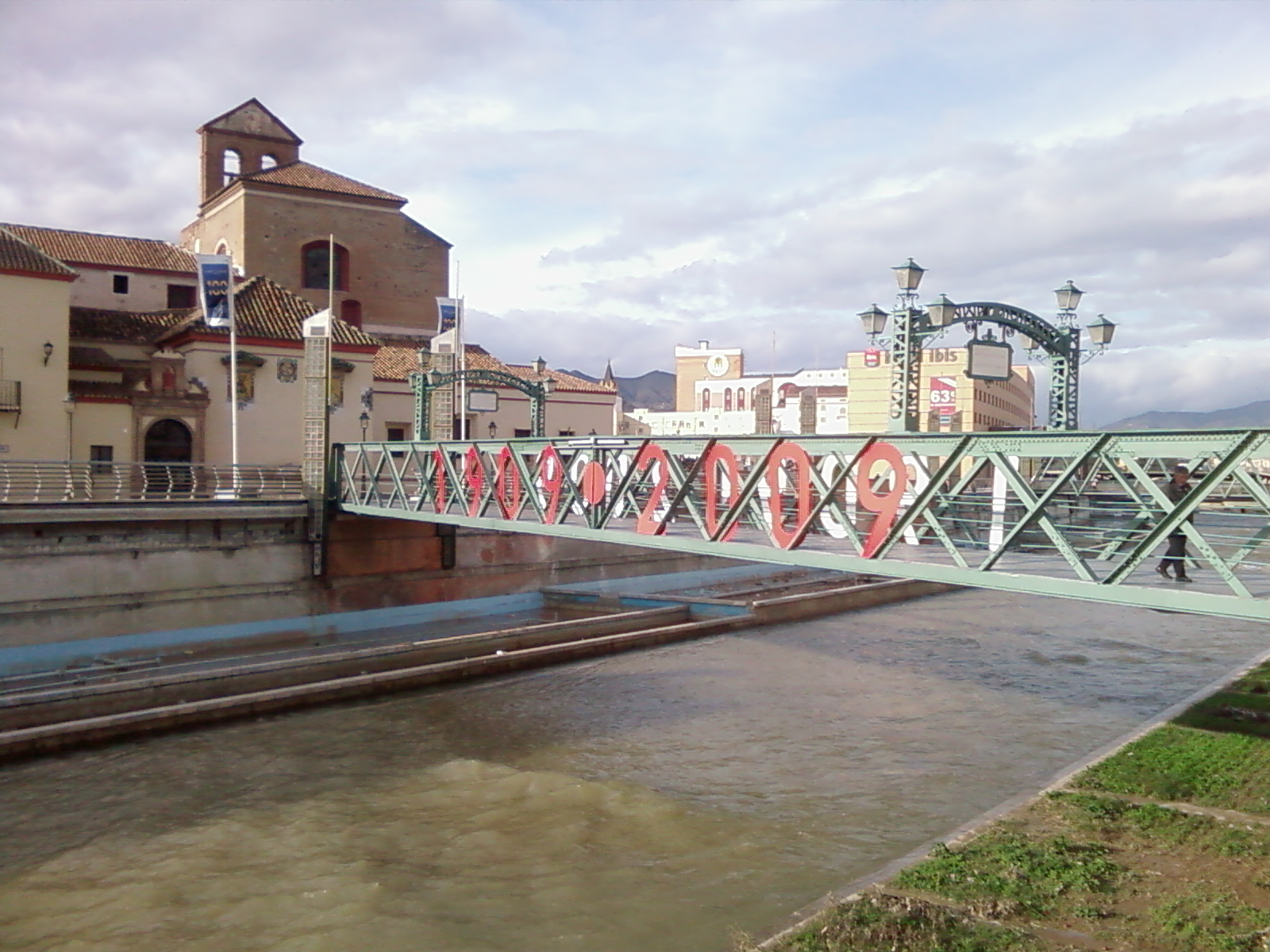 Saint Dominic's Bridge (Germans' Bridge) in Málaga, Spain